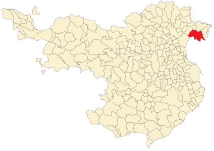 Roses